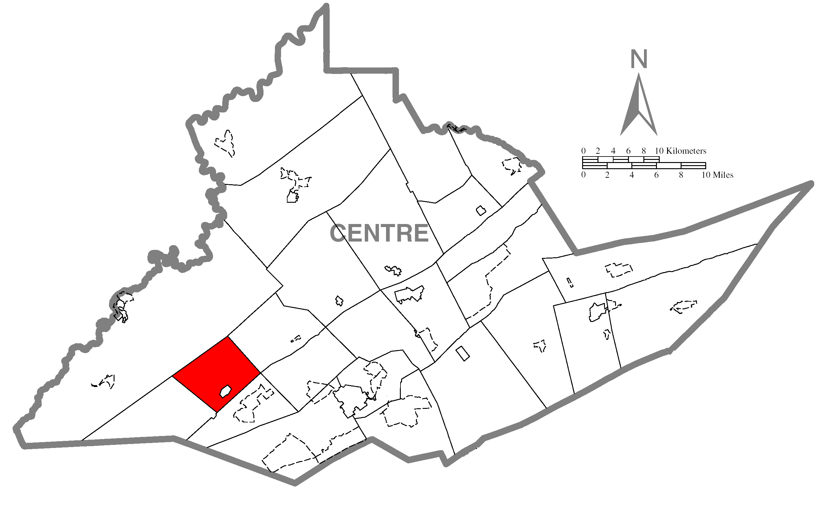 A map of Centre County showing Worth Township, Pennsylvania (alternate) highlighted on the map.